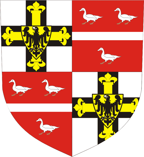 Teutonic Order - Coat of Arms of the Grandmaster Winrich von Kniprode